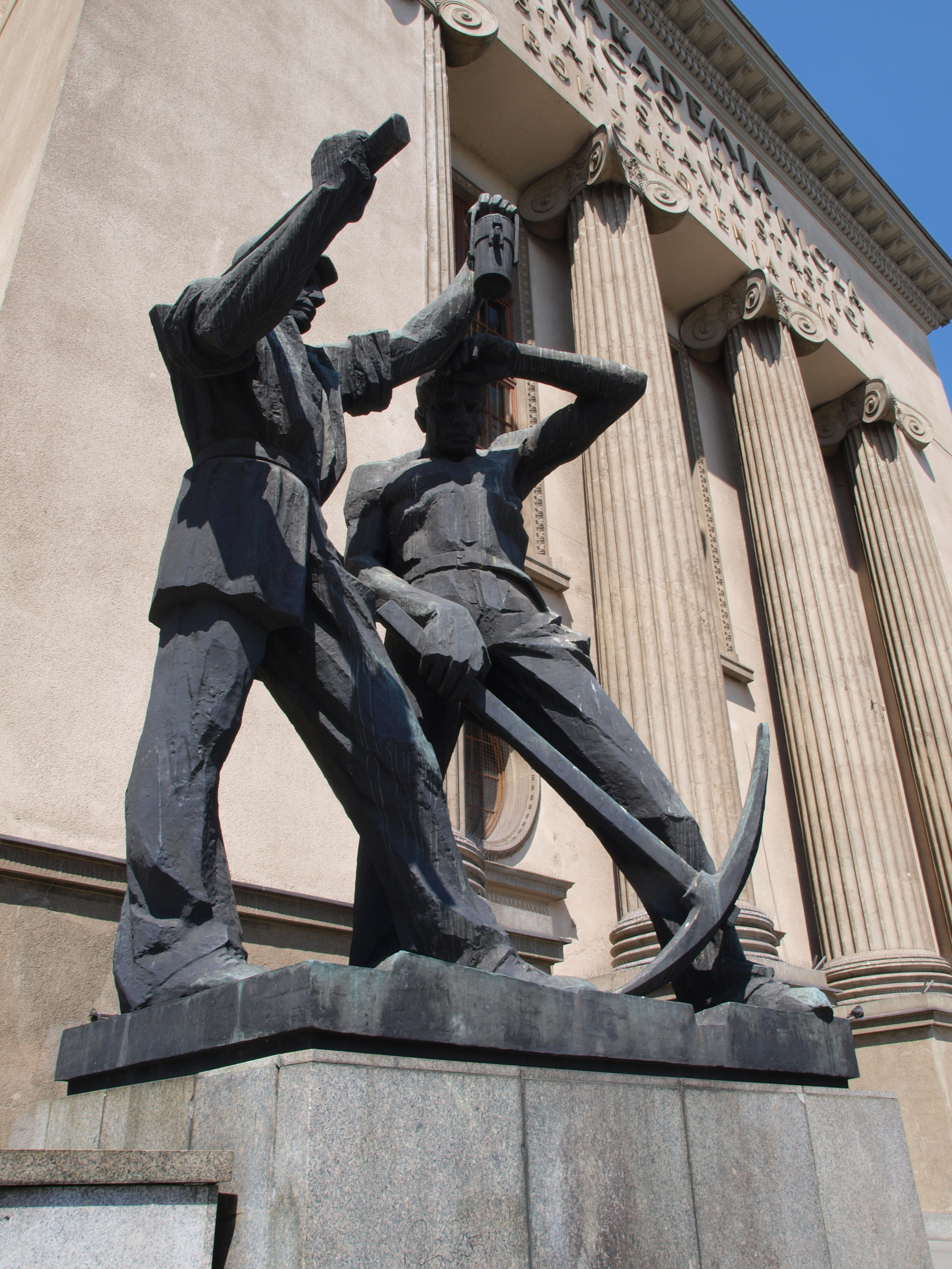 Miners monument at the entrace to A0 building of AGH University of Science and Technology in Kraków. The author of the sculptures is Jan Raszka.